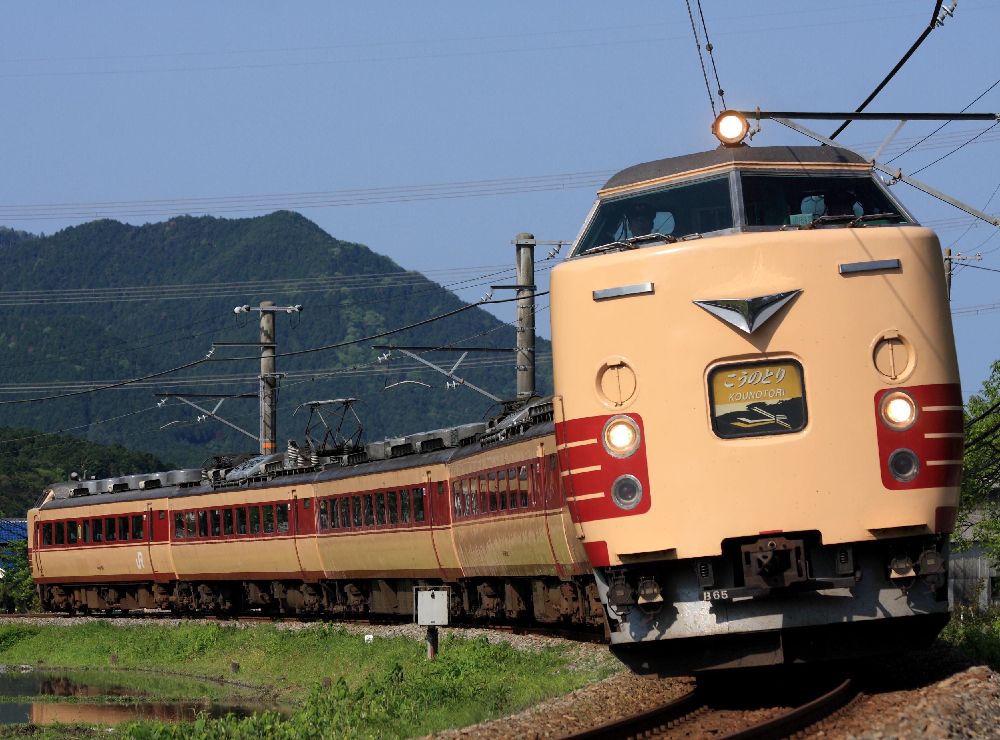 JR West 183 series EMU set B65 on a Kounotori service on the Fukuchiyama Line between Tanikawa and Shimotaki Stations